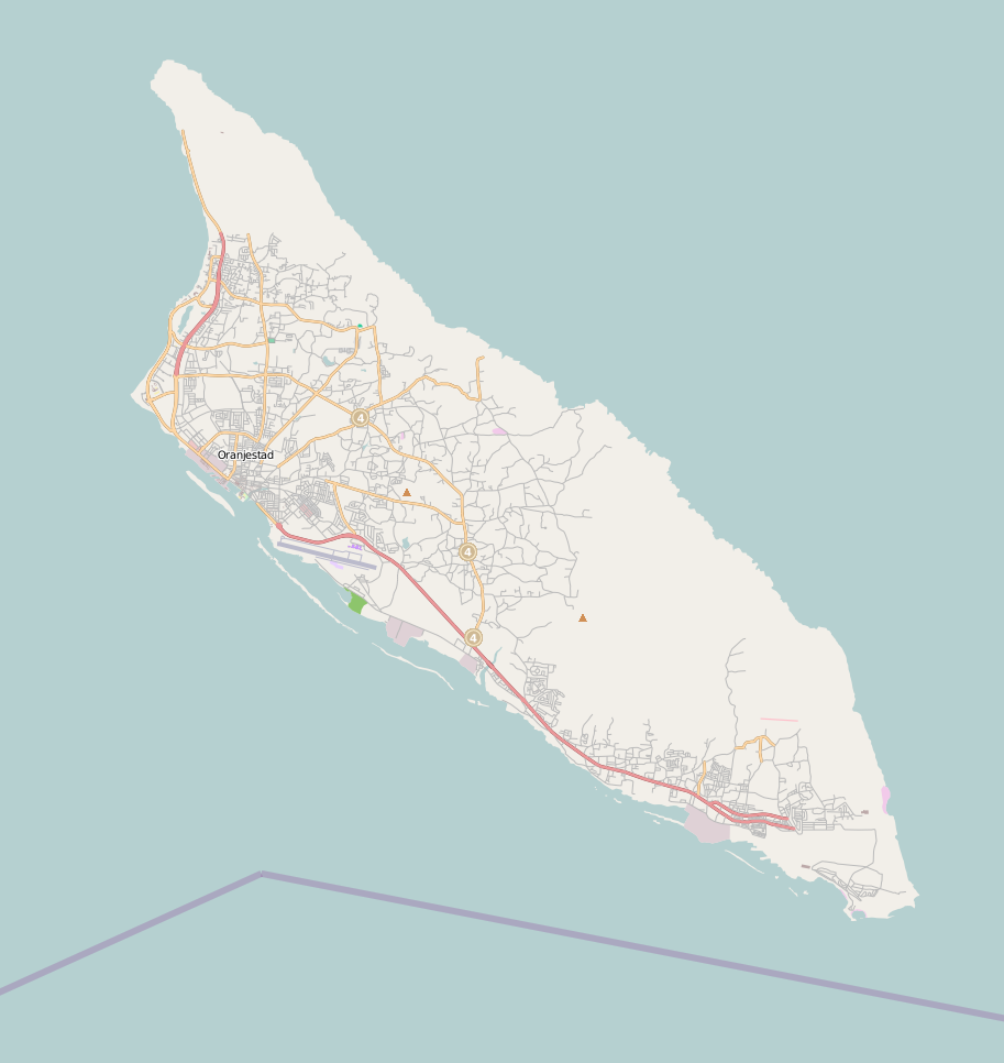 Map of Aruba Geographic limits of the map: N: 12.6379° S: 12.3768° W: -70.0975° E: -69.8448°